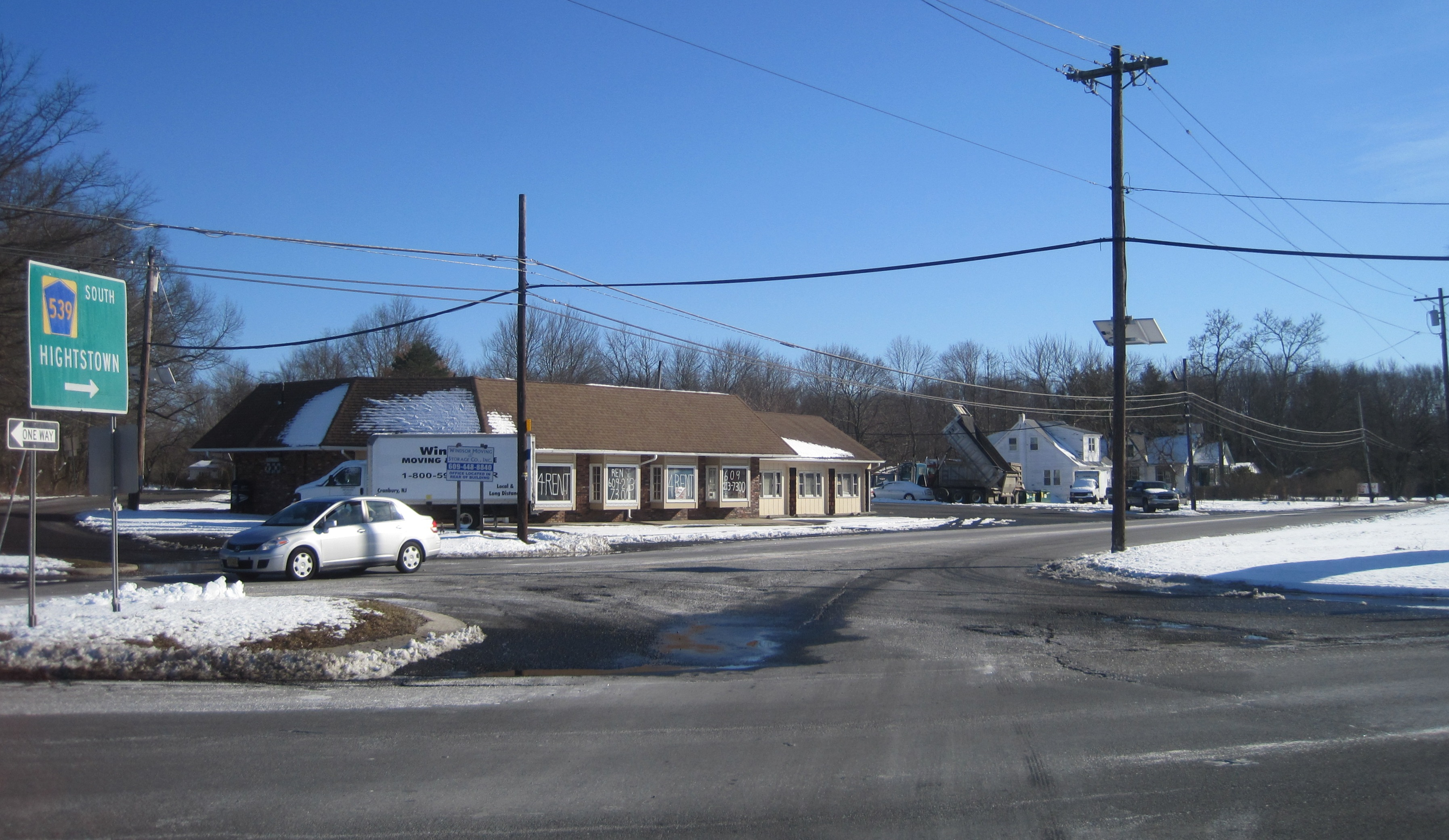 Photograph of the northern terminus (facing south) of CR 539 at the Cranbury Circle (US 130) in Cranbury Township.